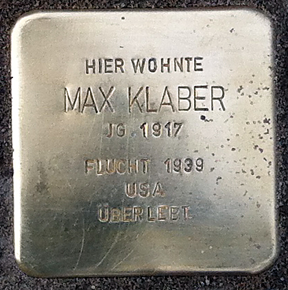 Stolperstein - Stumbling Stone in Nettetal, NRW, Germany Max Klaber